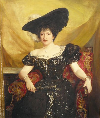 Portrait of Jennie Churchill (1854-1921)